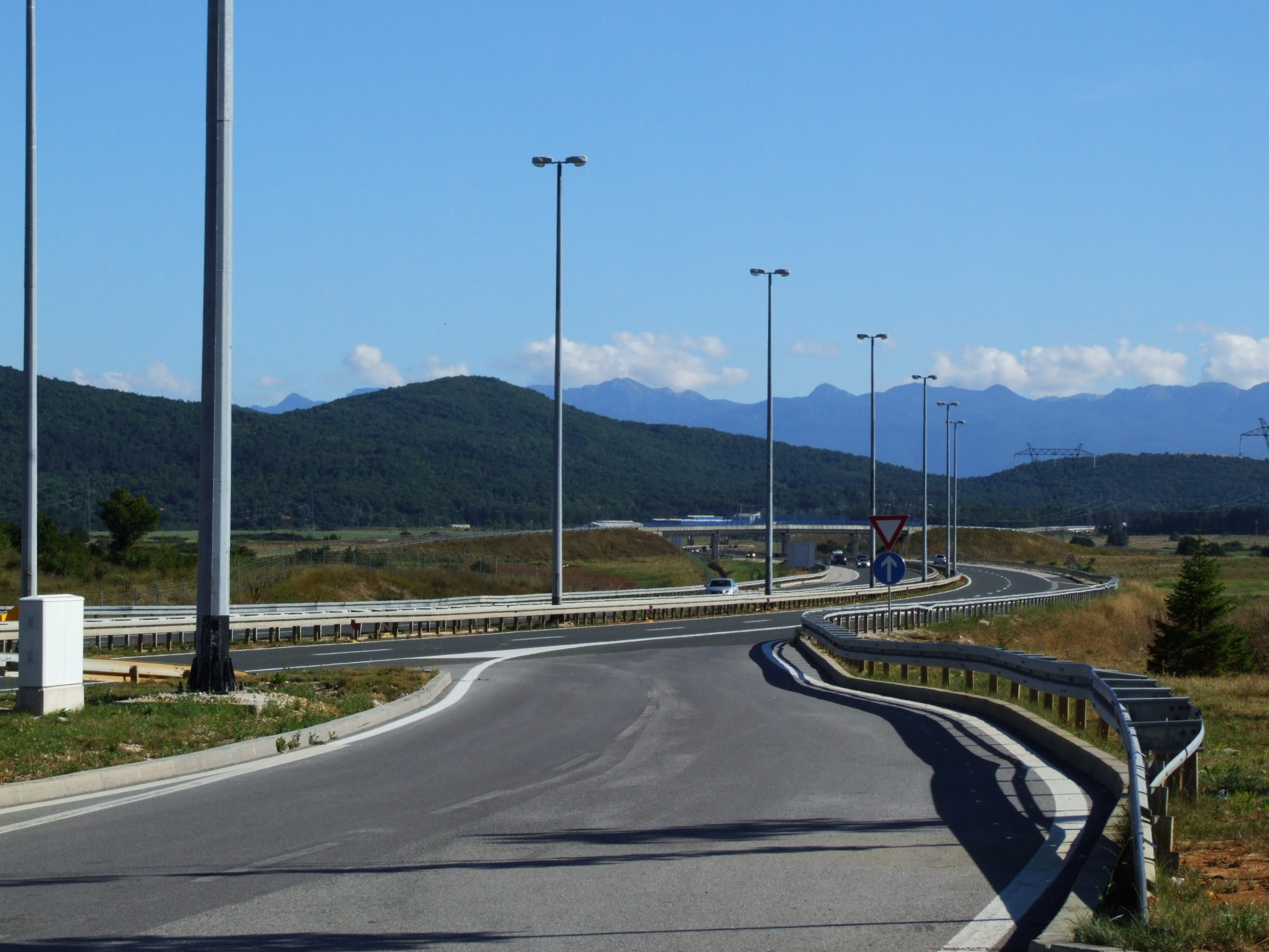 A1 motorway near Gospić in Croatia